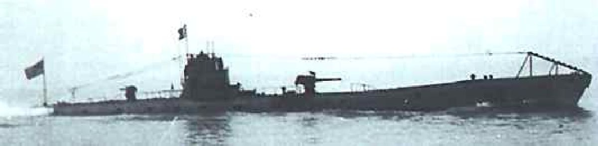 SM U-86. sank in two years 32 ships for a total of 119,411 tons WWI